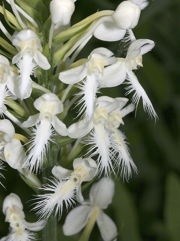 Platanthera blephariglottis. Fennville, Allegan Co., MI July 20